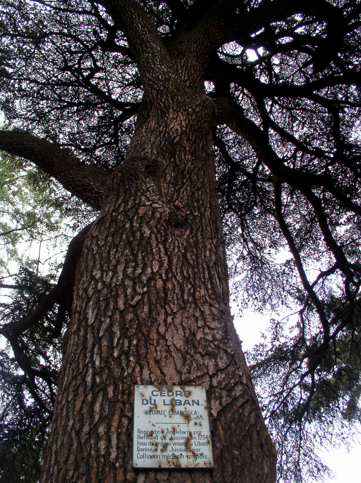 Lebanon Cedar in the Jardin des Plantes in Paris, planted 1734.